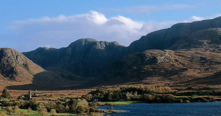 Two NUIGMC hikers on the 12 Bens